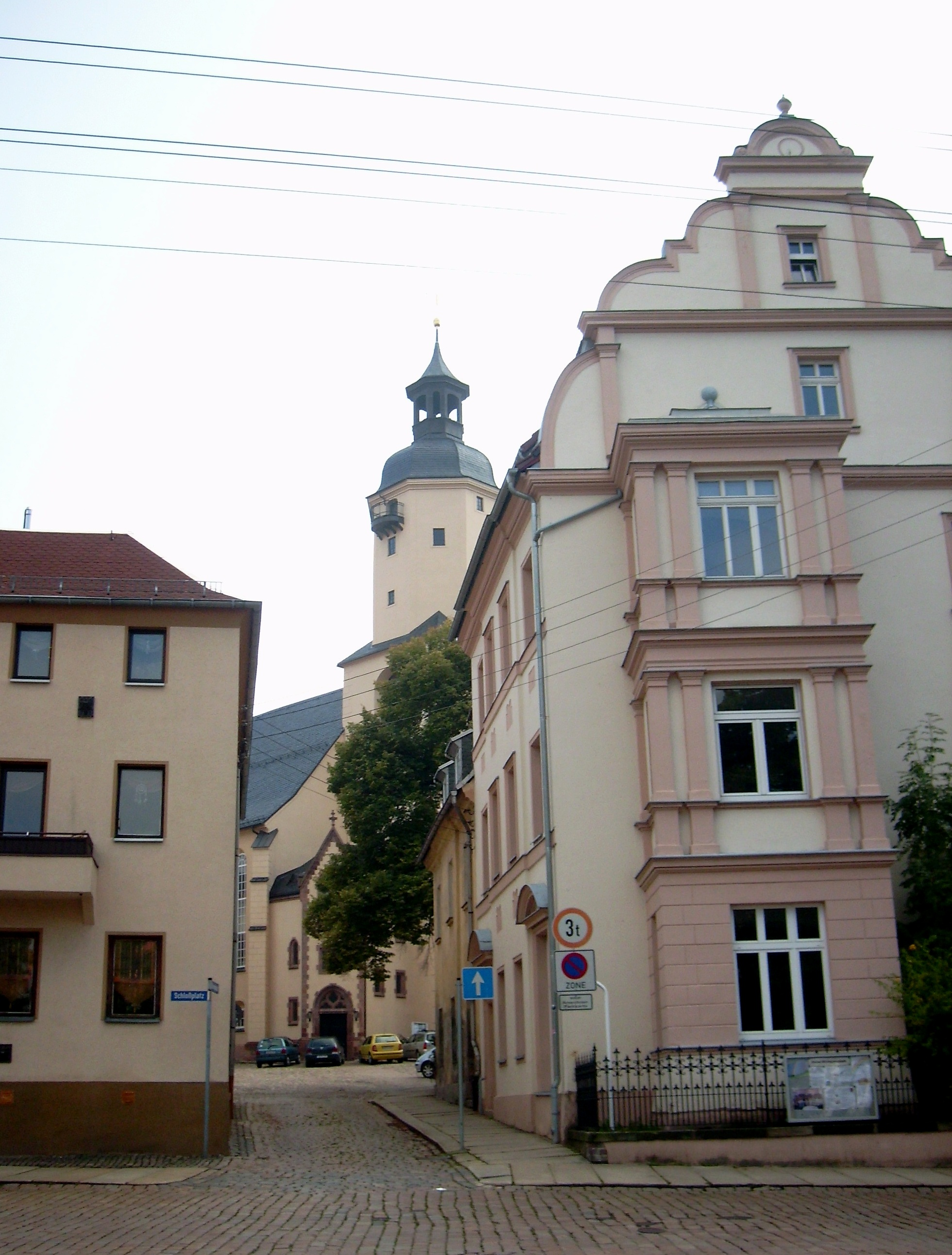 View of St. George Church in Glauchau (Zwickau district, Saxony) from Schlossplatz